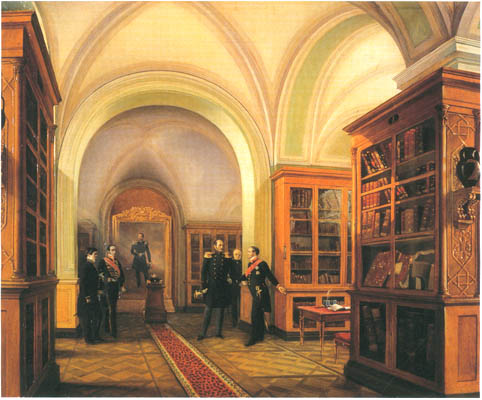 Emperor Nicholas I's Visit to the Public Library